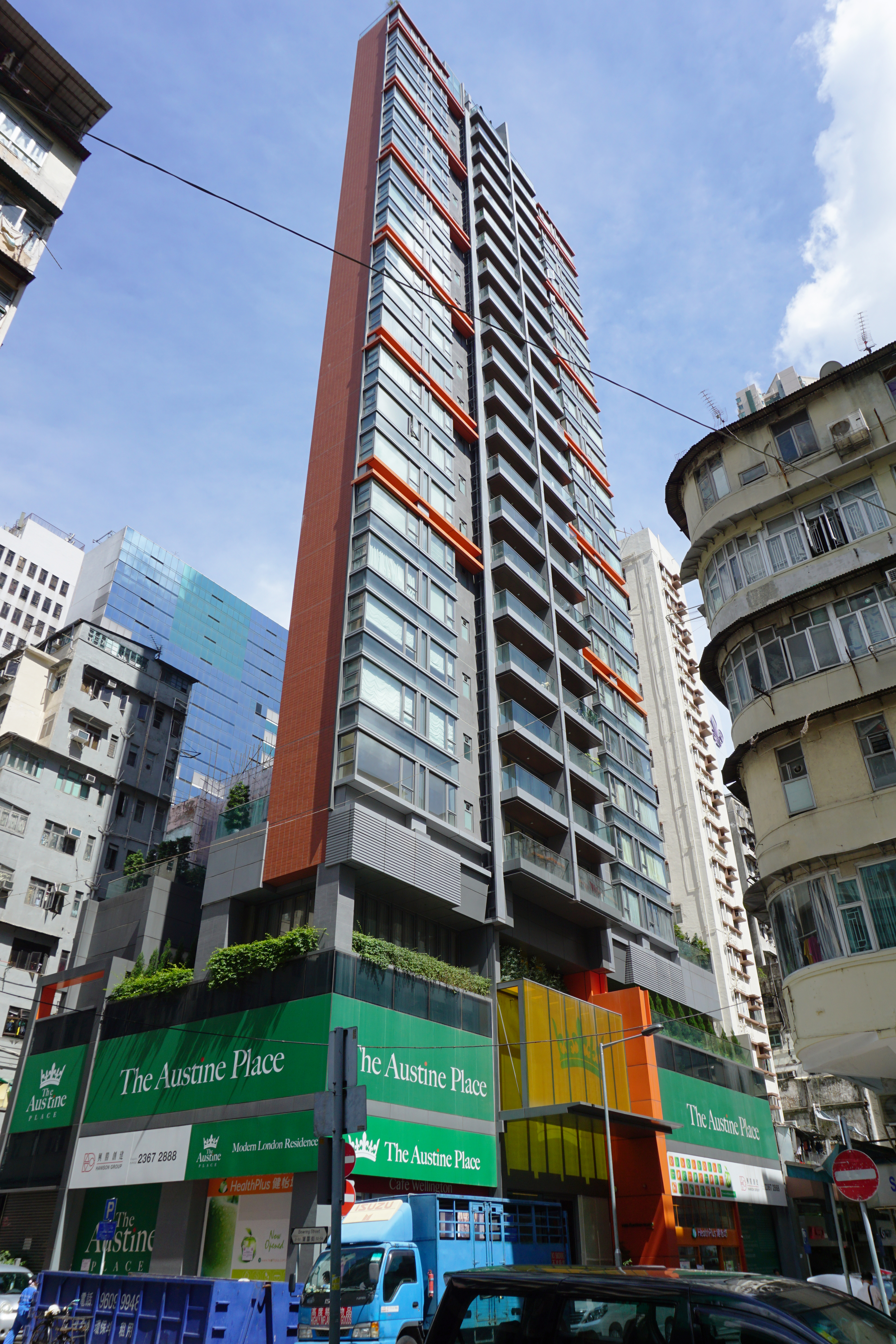 The Austine Place in Jordan, Hong Kong.